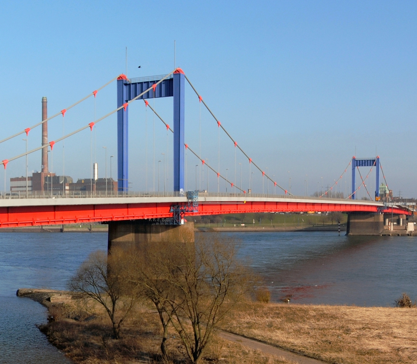 Panoramic view from the west of the Friedrich Ebert bridge in Duisburg, Germany This image was created with Hugin.